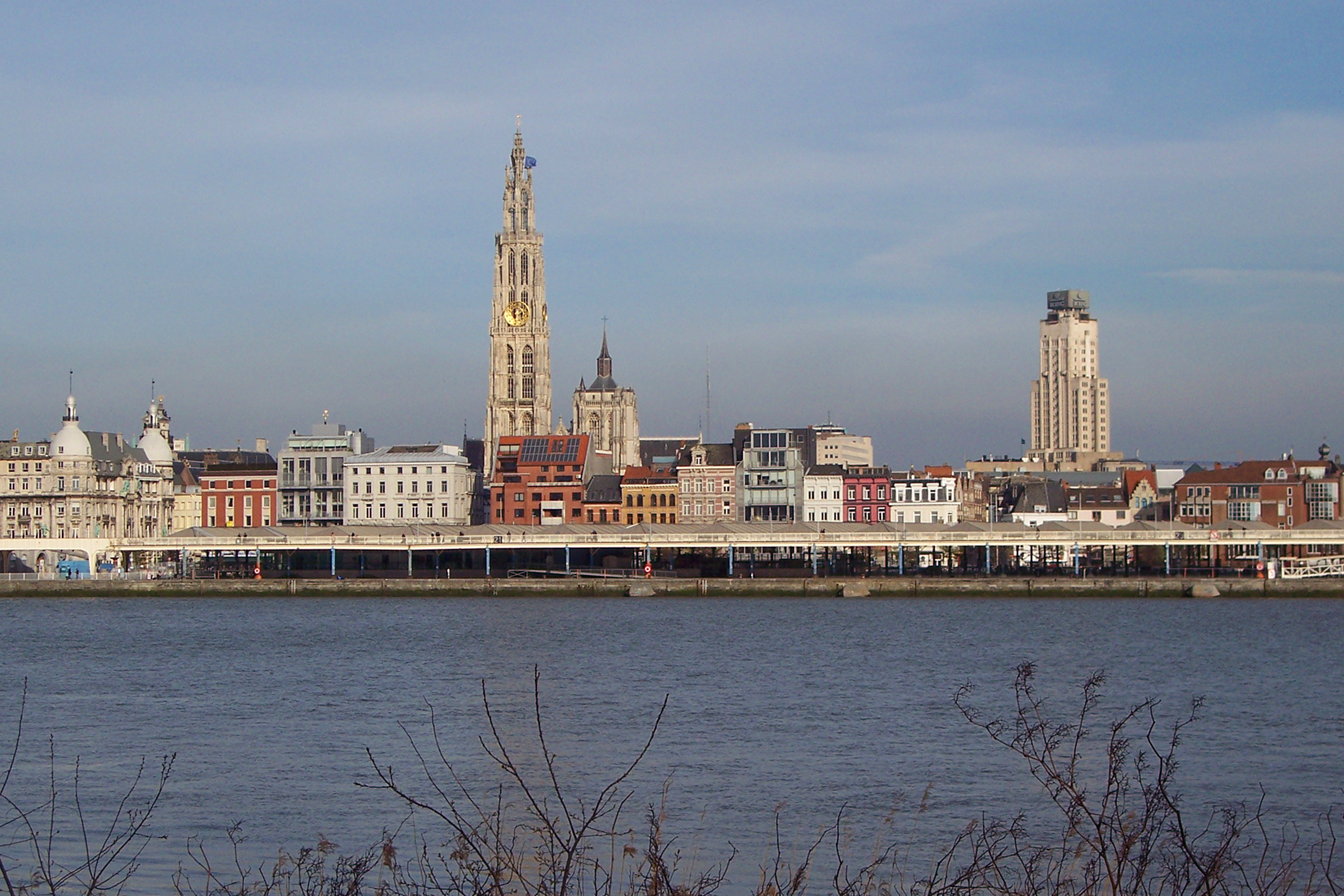 Downtown Antwerp seen across the river Scheldt.